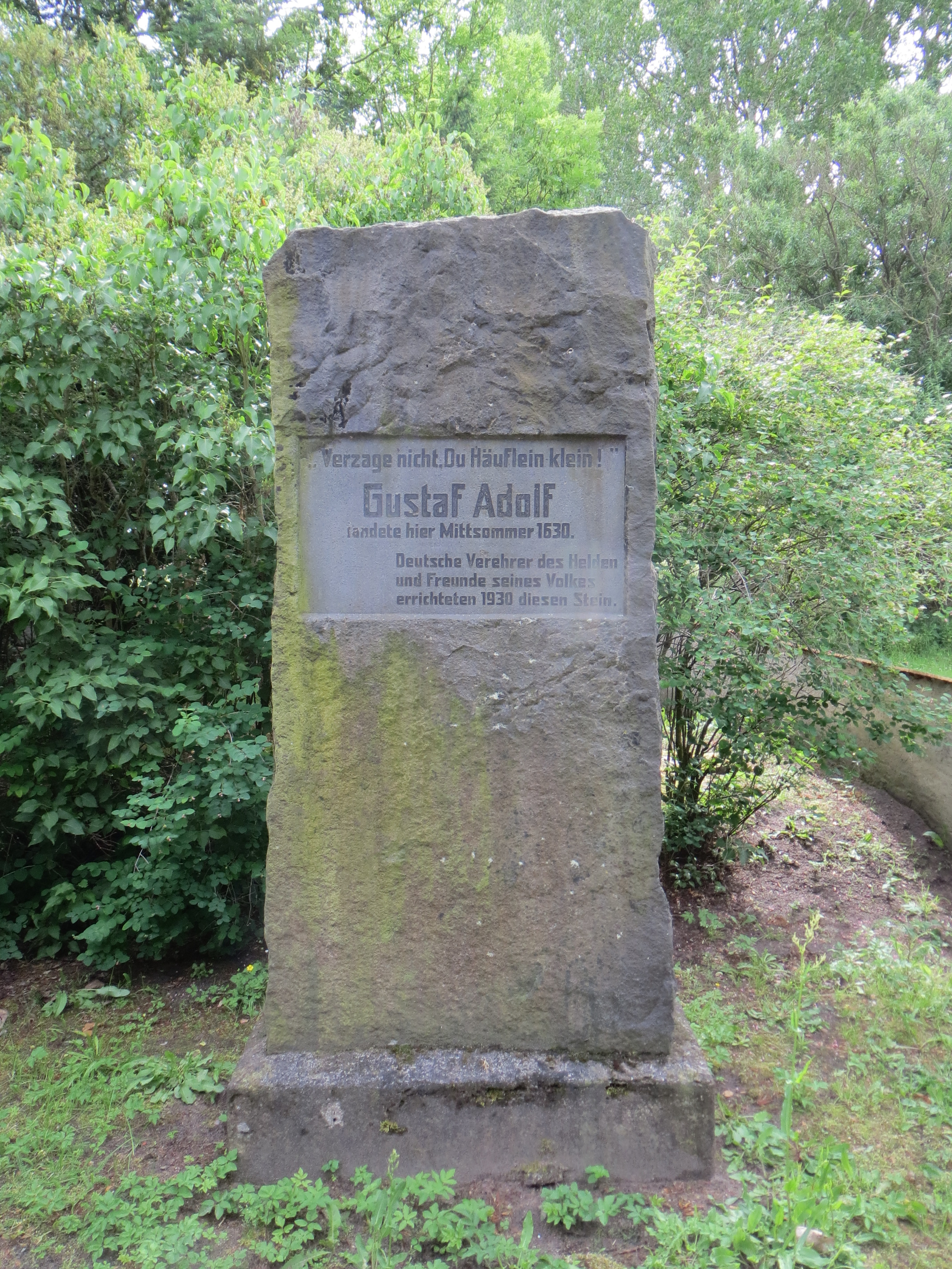 Memorial stone from 1930 commemorating the landing of King Gustavus Adolphus of Sweden on May 25, 1630, German inscription